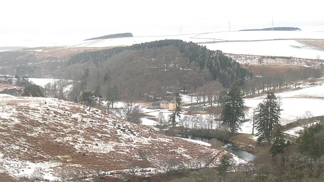 River Whiteadder The attractive glen of the Whiteadder near Abbey St Bathans. A view towards The Retreat, a former hunting lodge from Edin's Hall.